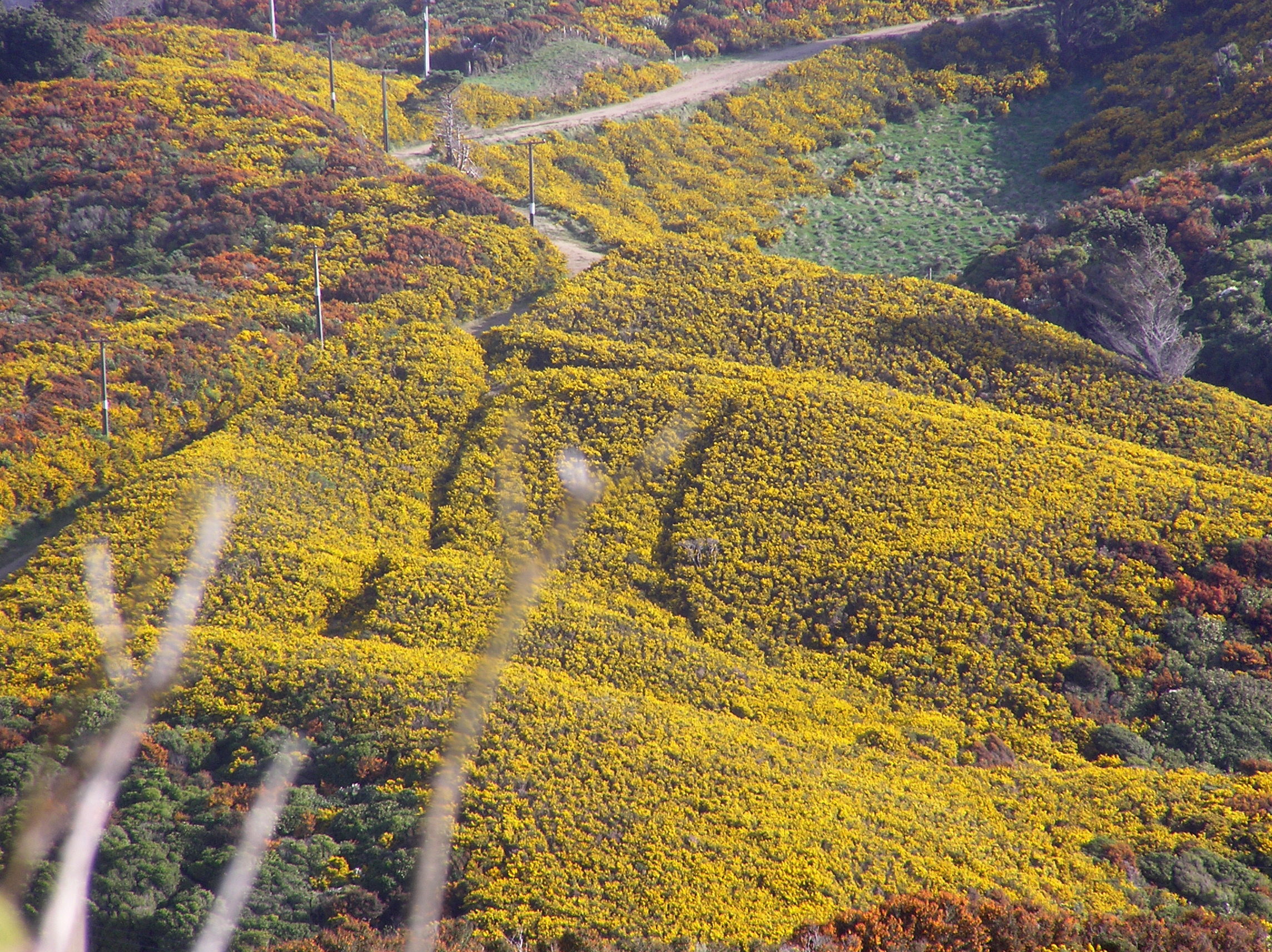 Gorse (yellow) growing in large block. Other coloured areas are orange: Darwins Barberry, darkgreen: regenerating natives, light green: grass. On farmland in the hills behind Karori, Wellington, New Zealand.